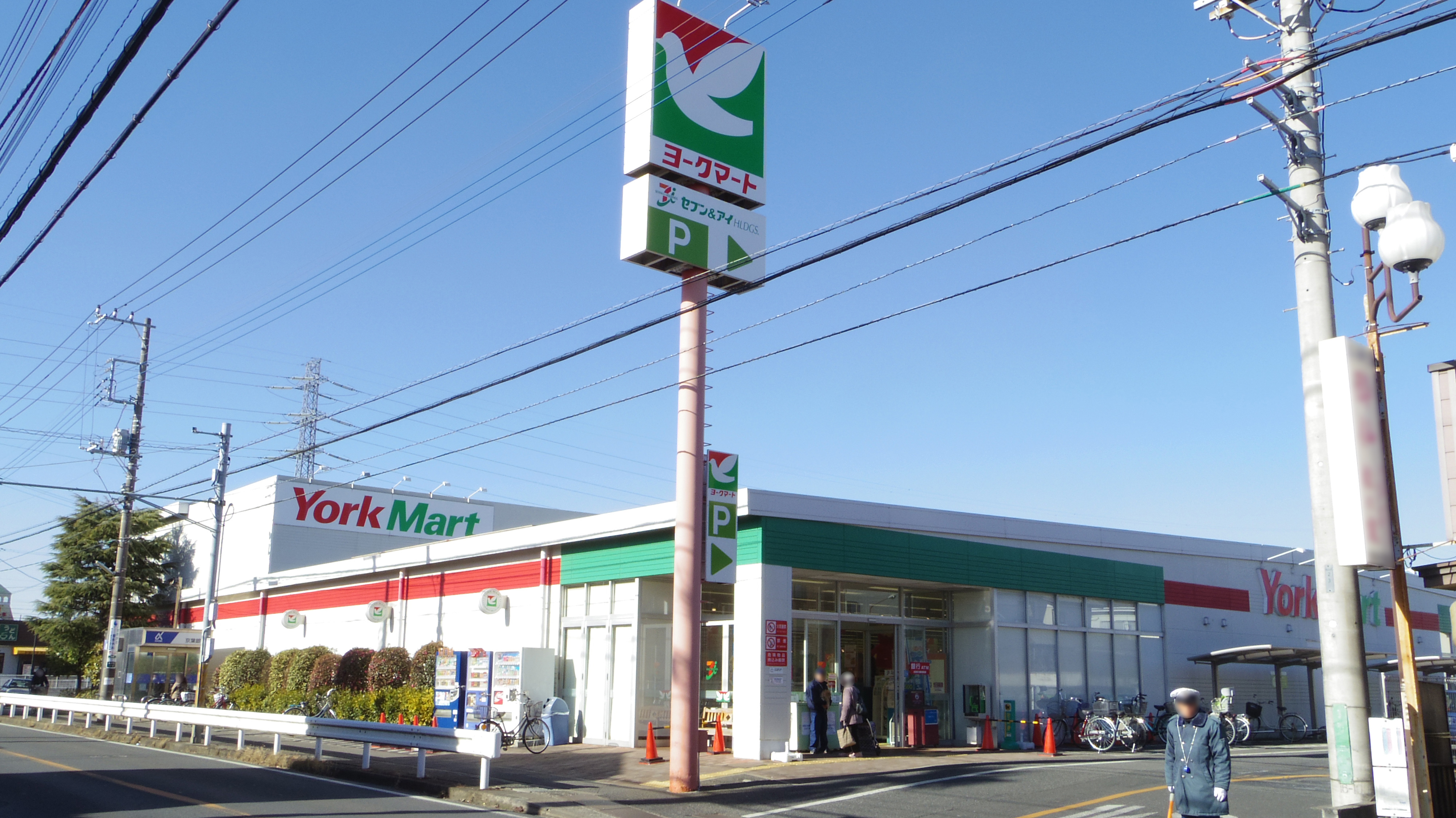 York Mart Sakigaoka branch, Funabashi city, Chiba prefecture, Japan